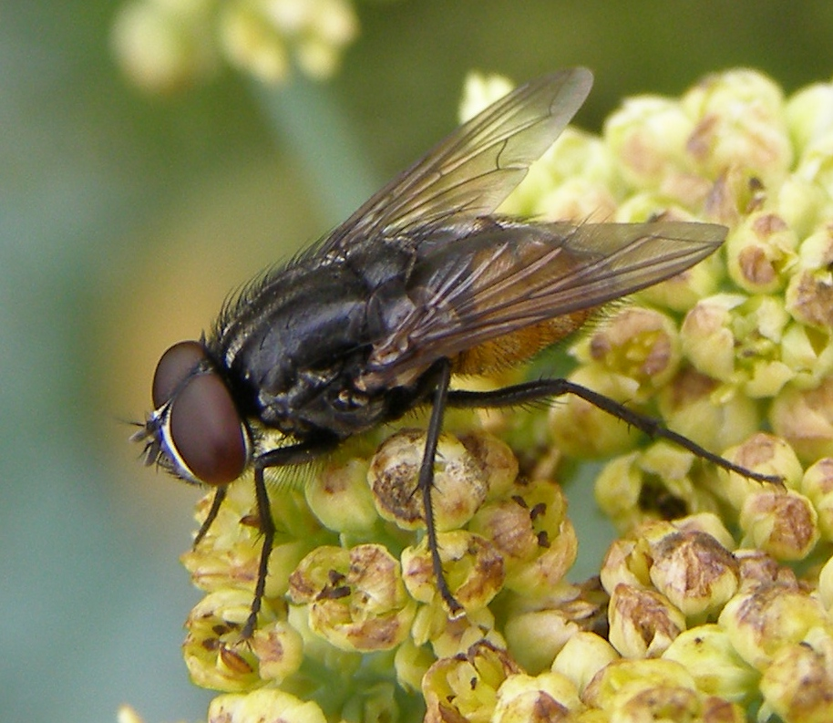 A male Musca autmnalis. ID by Stephane Lebrun.